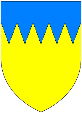 Arms of Walter: Or, a chief indented azure. As quartered in the 1st quarter by Butler, Earl and Marquess of Ormonde (Debrett's Peerage, 1968, p.864)